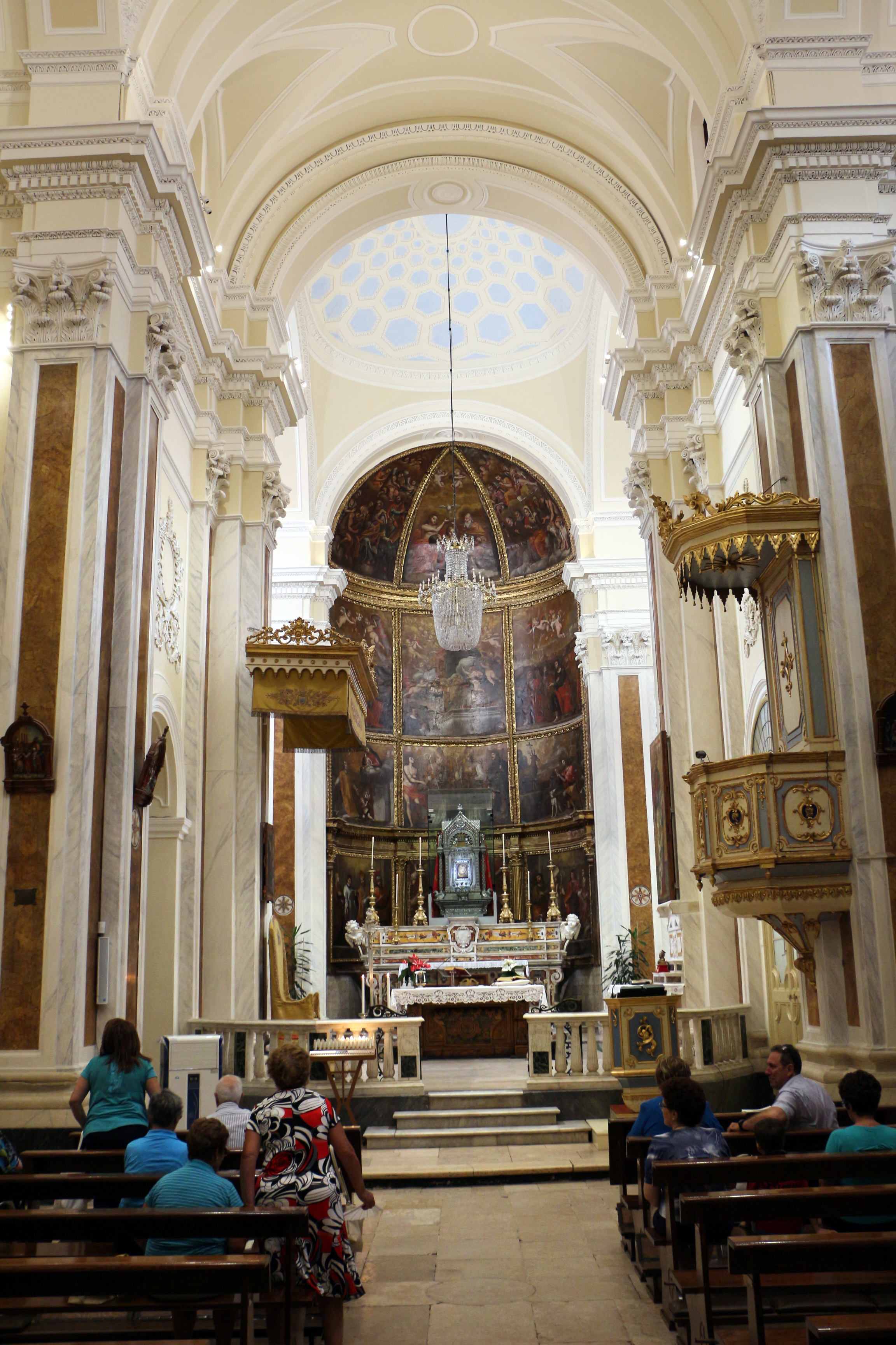 Giovinazzo